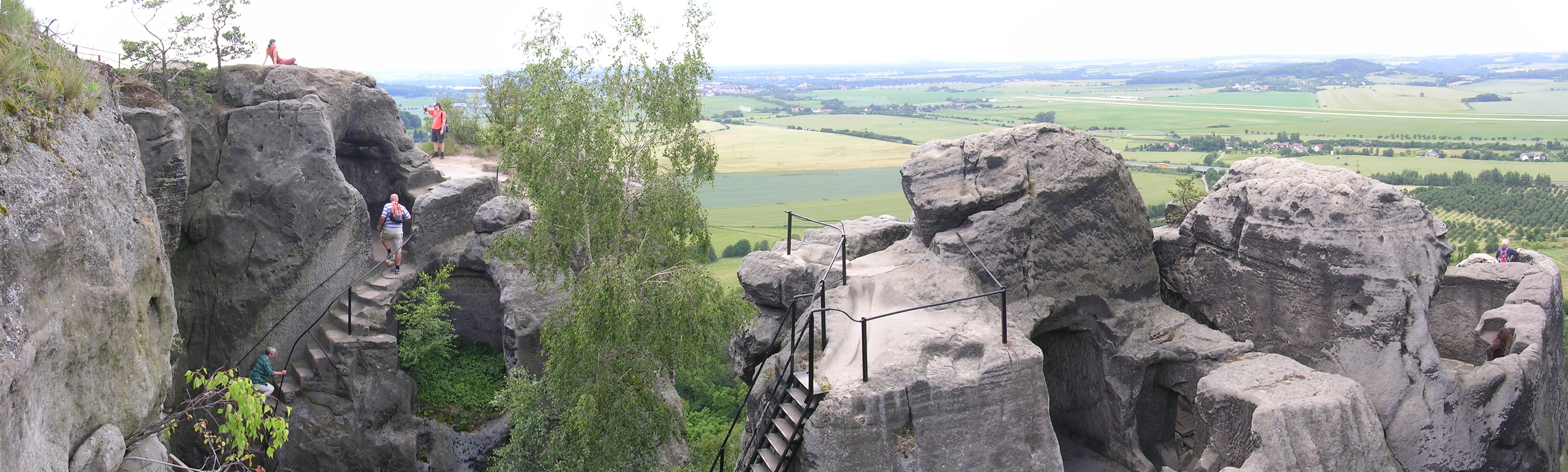 Drábské světničky, Mladá Boleslav District, Central Bohemian Region, the Czech Republic.